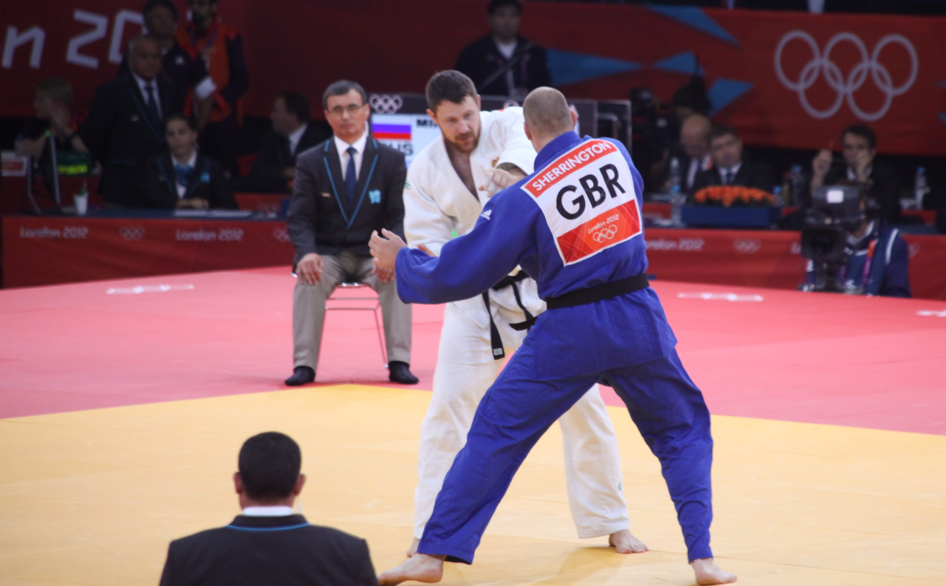 Olympic Judo London 2012